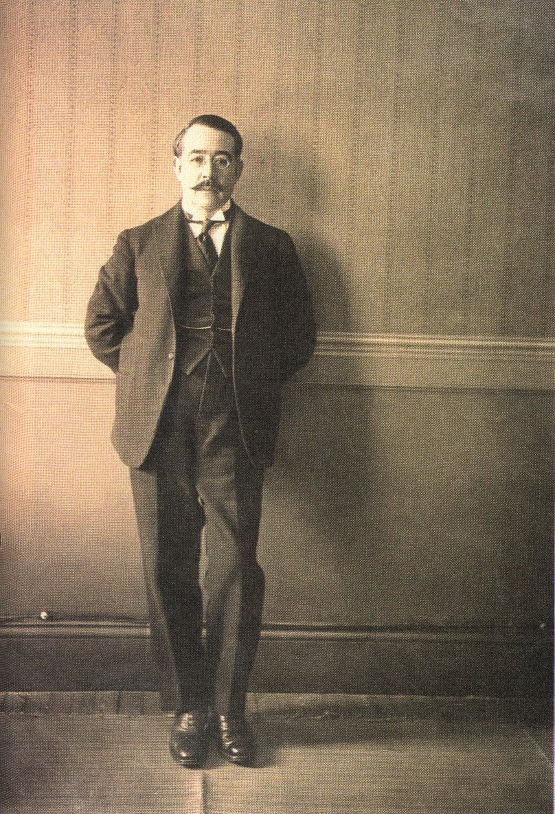 Argentine writer Leopoldo Lugones.